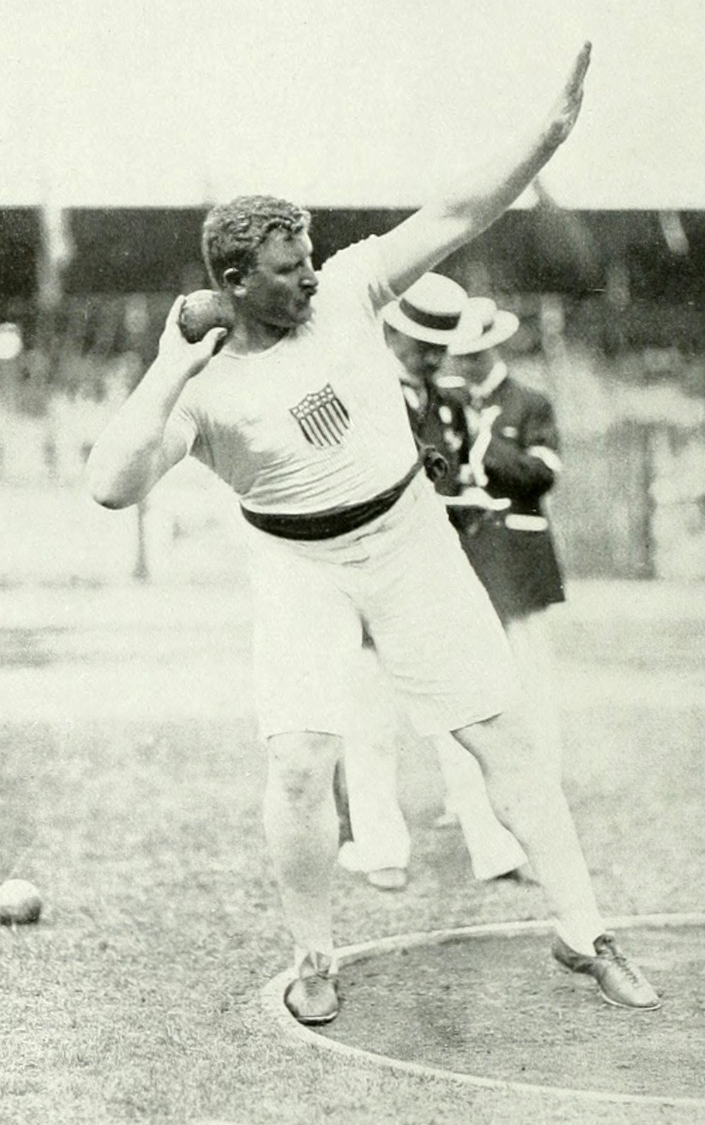 Patrick McDonald at the 1912 Summer Olympics